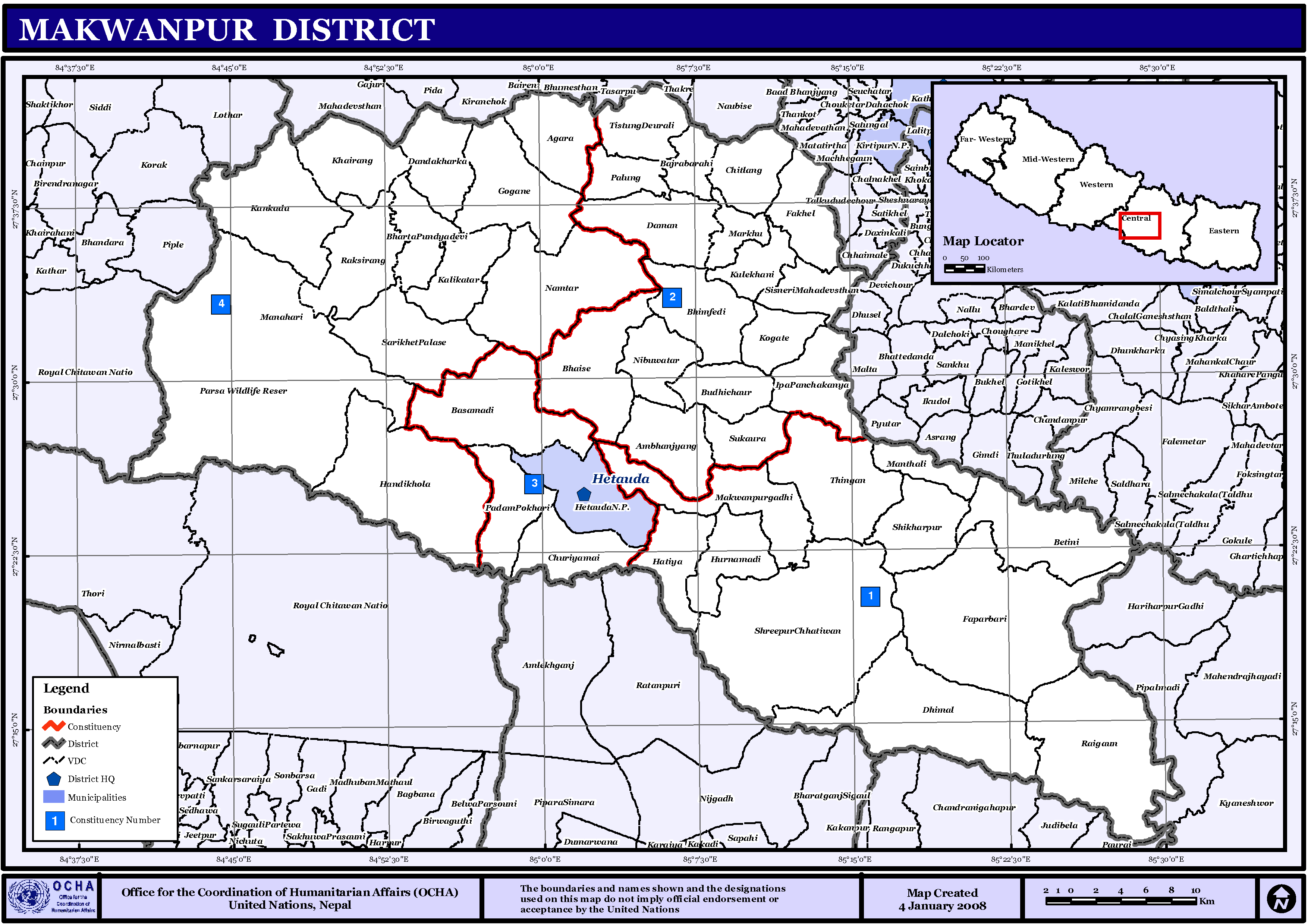 Map displaying Village Development Committees in Makwanpur District, Nepal